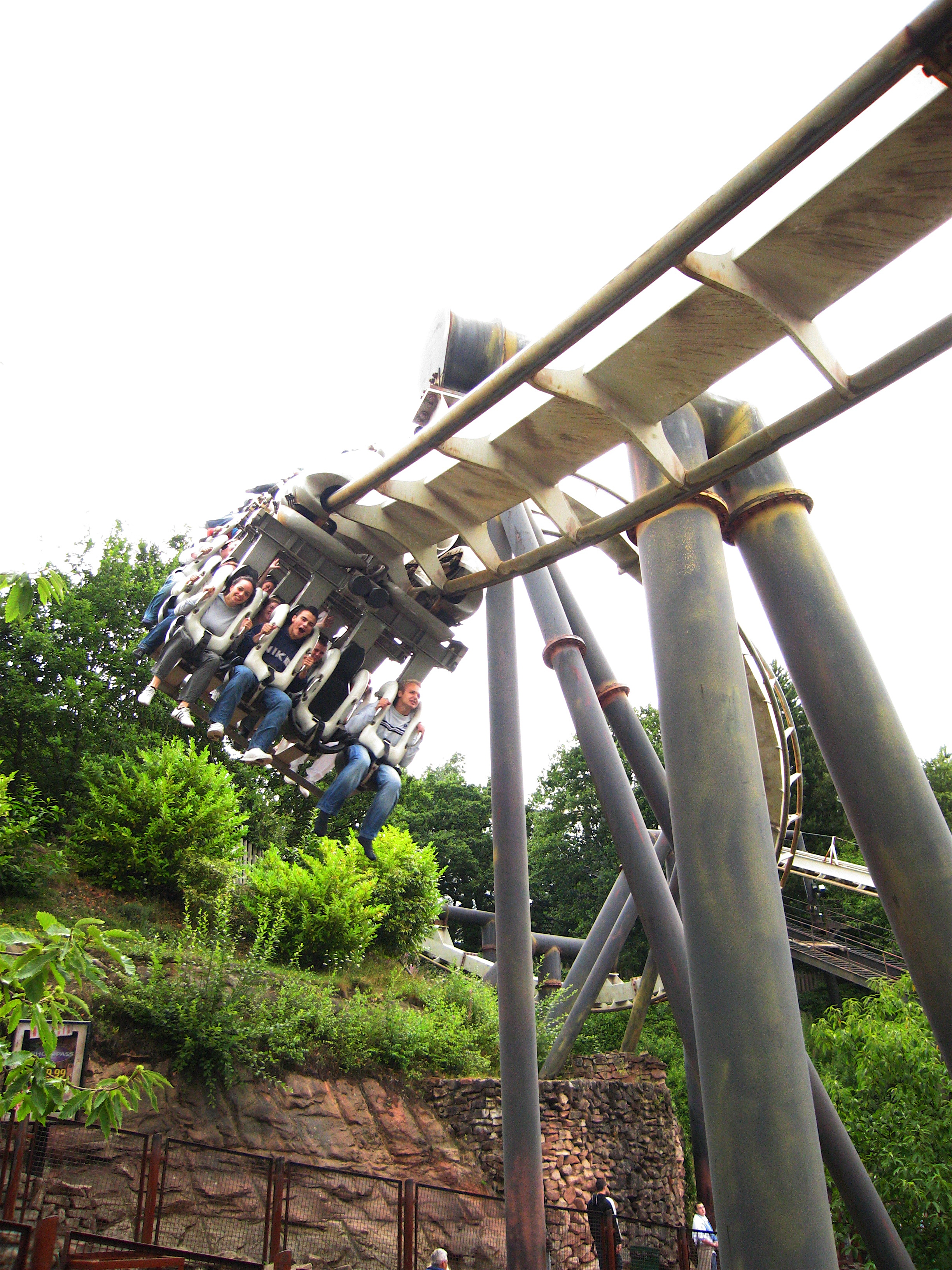 Its not easy to snap people screaming past at 50mph and pulling 3.5G! (don't look too hard... we're not in this one).